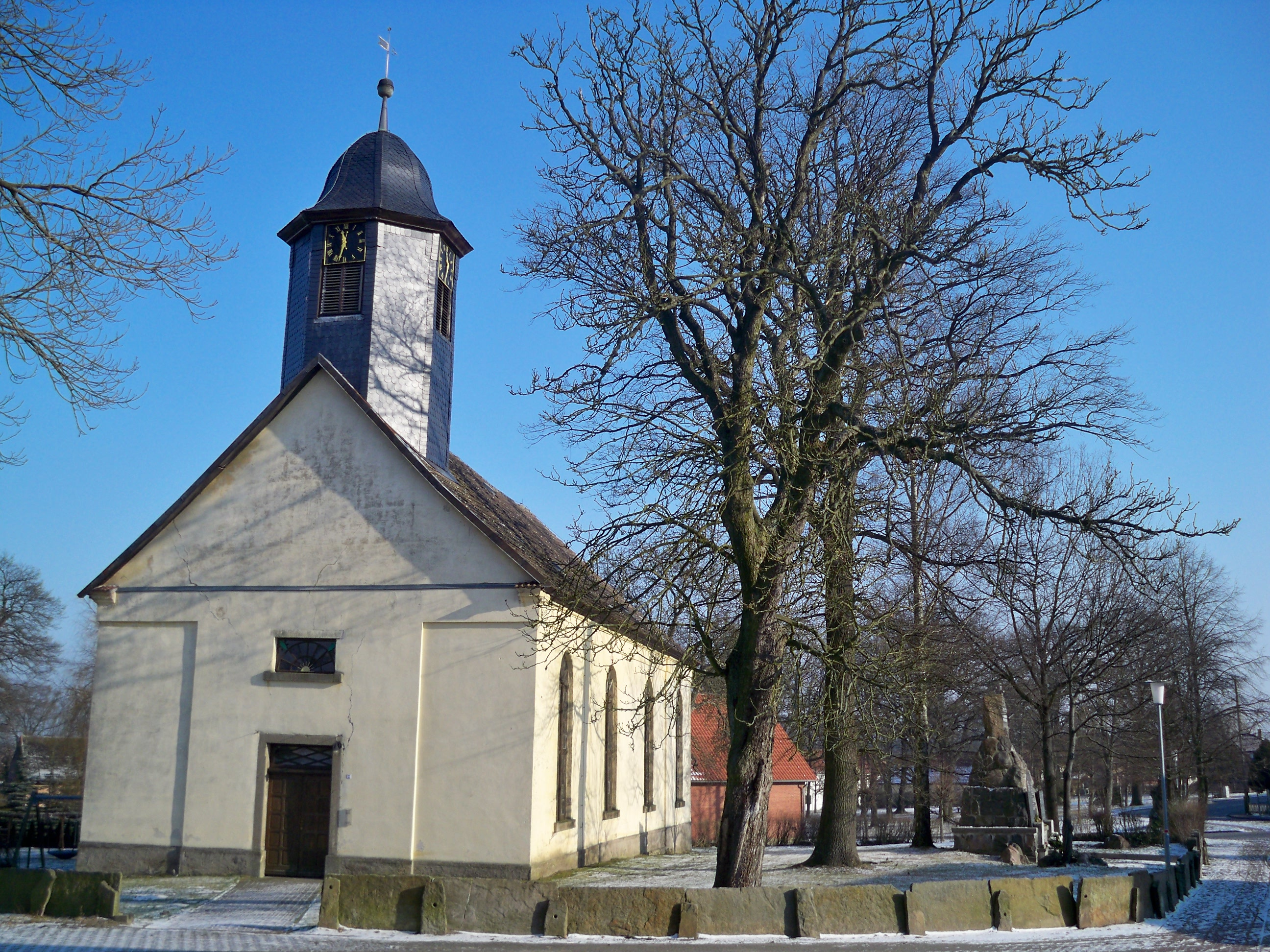 Steimke (Klötze), Saxony-Anhalt, village scene with church